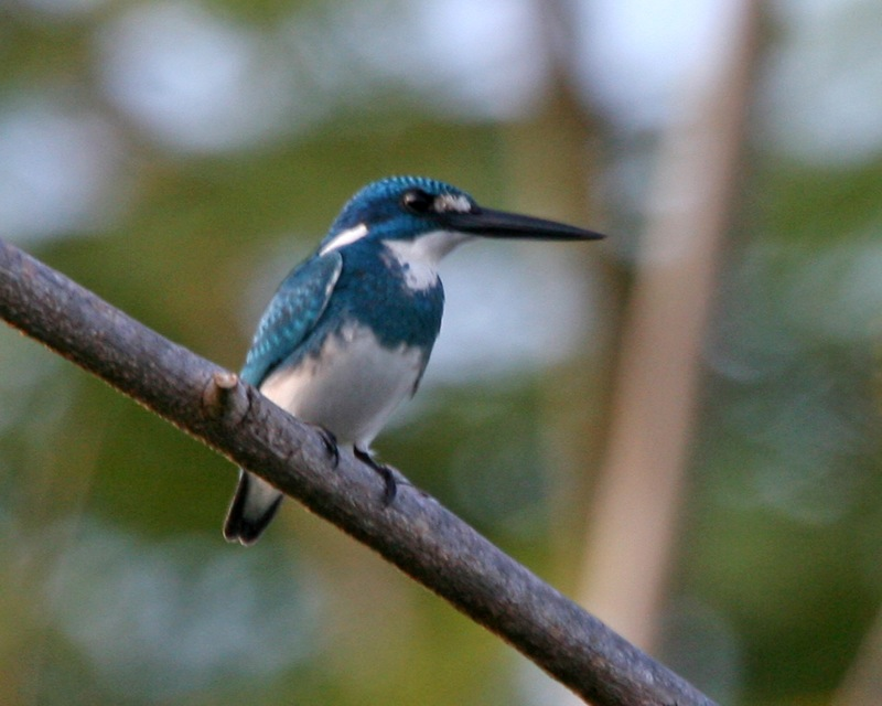 Small Blue Kingfisher - male Alcedo coerulescens aka Alcedo caerulescens 21st. June 2005 Nusa Dua, Bali, Indonesia Bali is well known as a holiday spot. This picture was taken in the utility area, a sewage treatment plant amidst the posh hotels of Nusa Dua. Alt. names: Caerulean Kingfisher, Cerulean Kingfisher